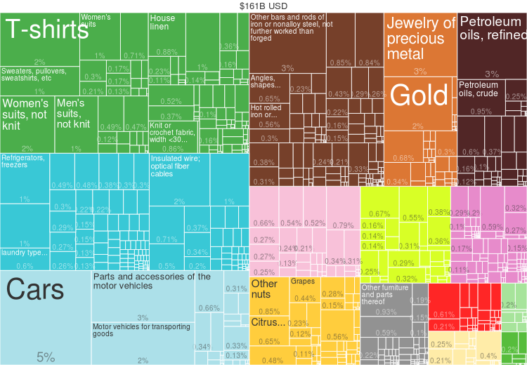 2014 Turkey Products Export Treemap